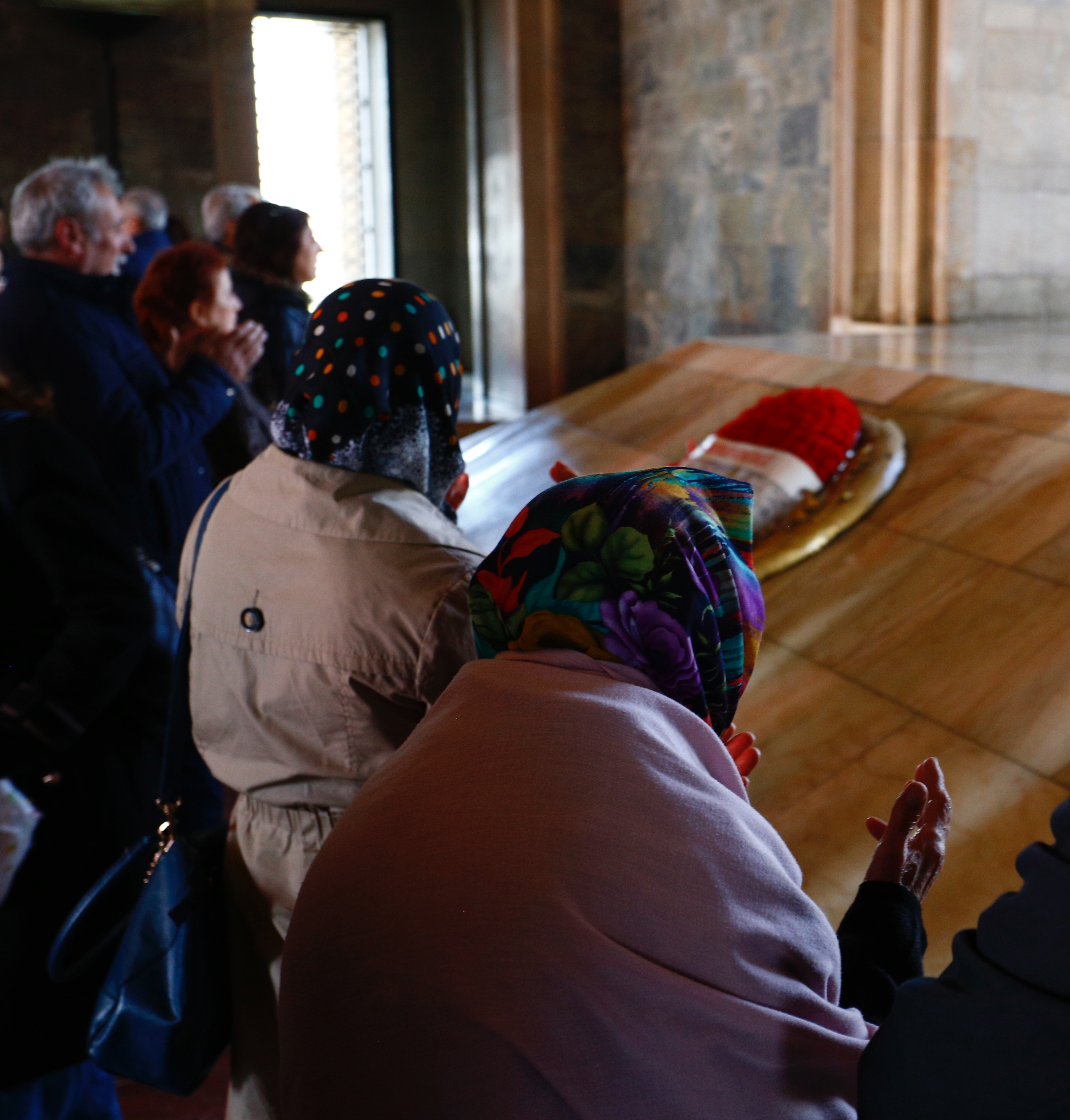 Many visitors to the Anıtkabir, in Ankara, Turkey, pray for the soul of their country's founder, Mustafa Kemal Atatürk.